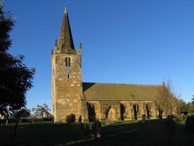 St Catherine's Church, Barmby Moor, East Riding of Yorkshire, England St Catherine's Church can be approached from Main Street or Beck Side in the village of Barmby Moor.